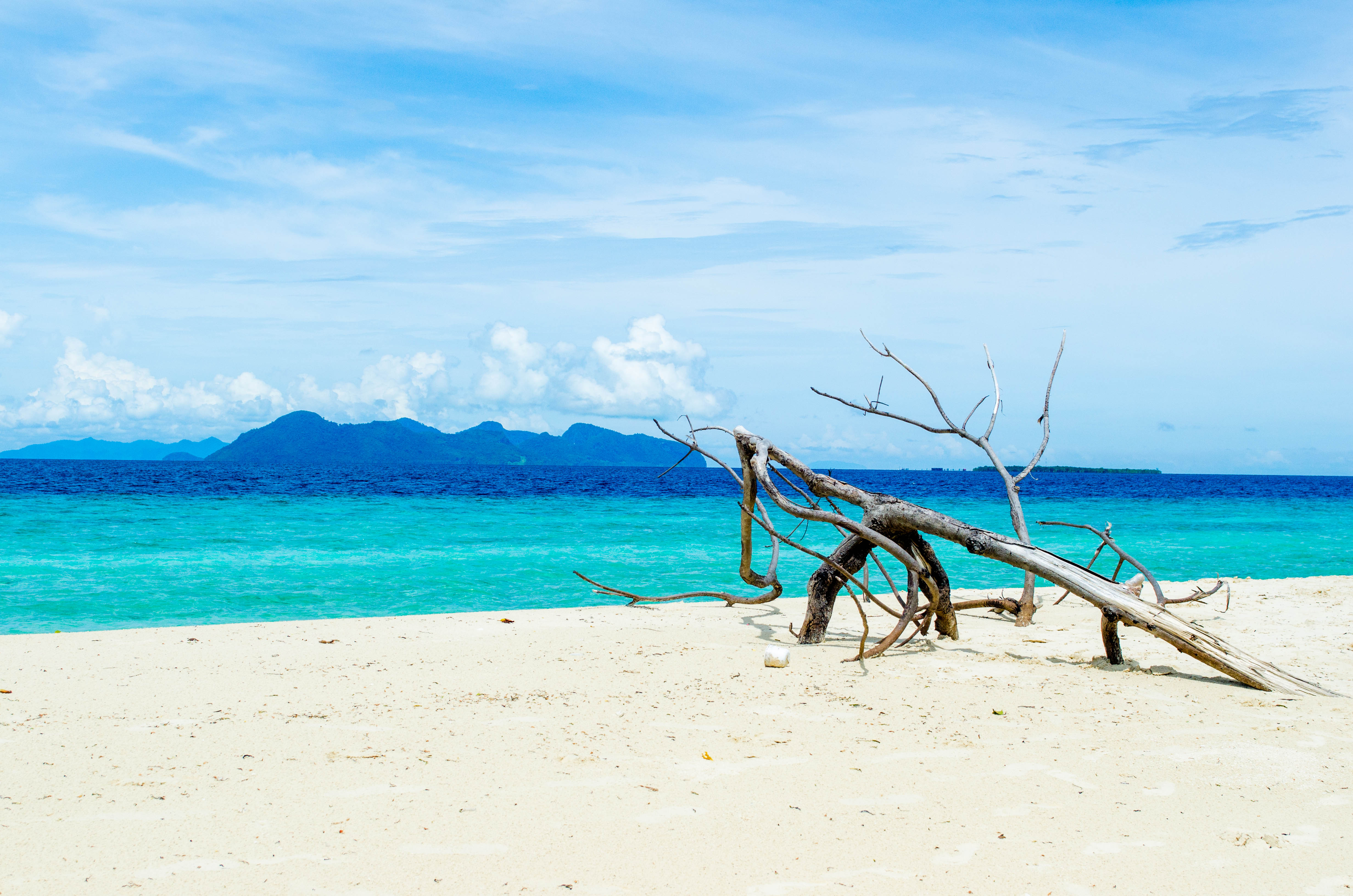 Photo captured on 14 Oct 2018, on the beach of the small neck connecting Mataking Island with the Pulau Mataking Kecil